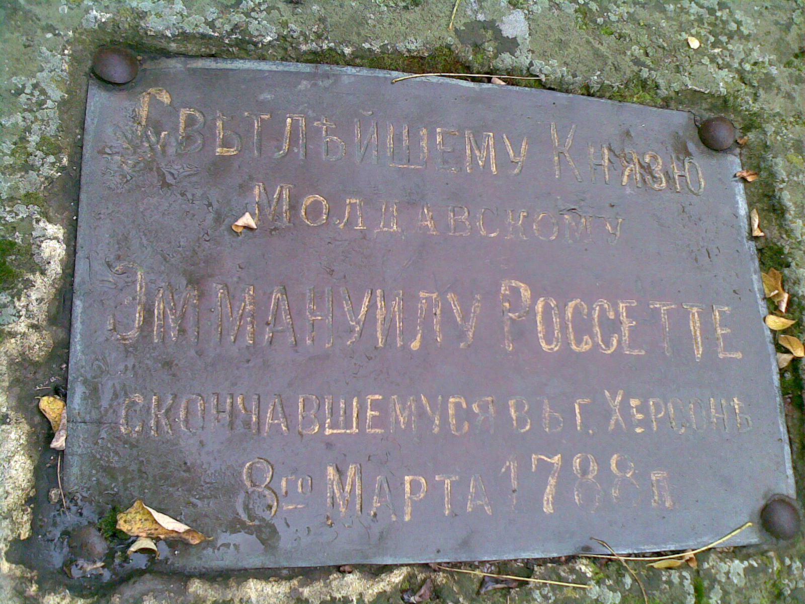 Potemkin, Grigori Alexandrovich